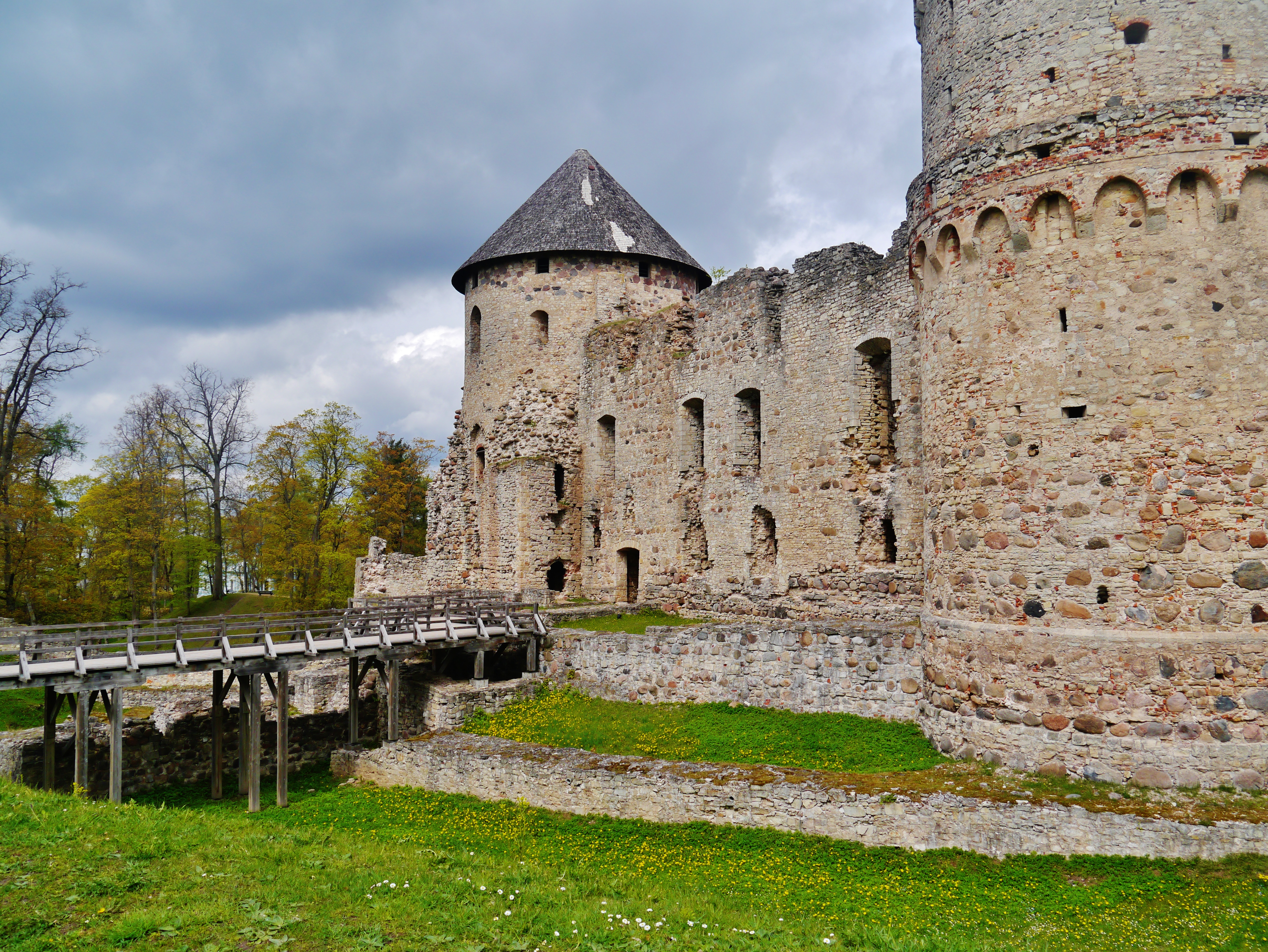 Cesis Castle, Cesis, Latvia